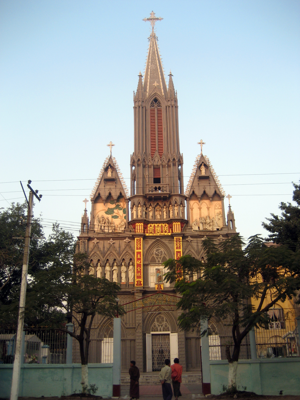 St Joseph's Roman Catholic Church, on 80th & 34th, Mandalay, Myanmar